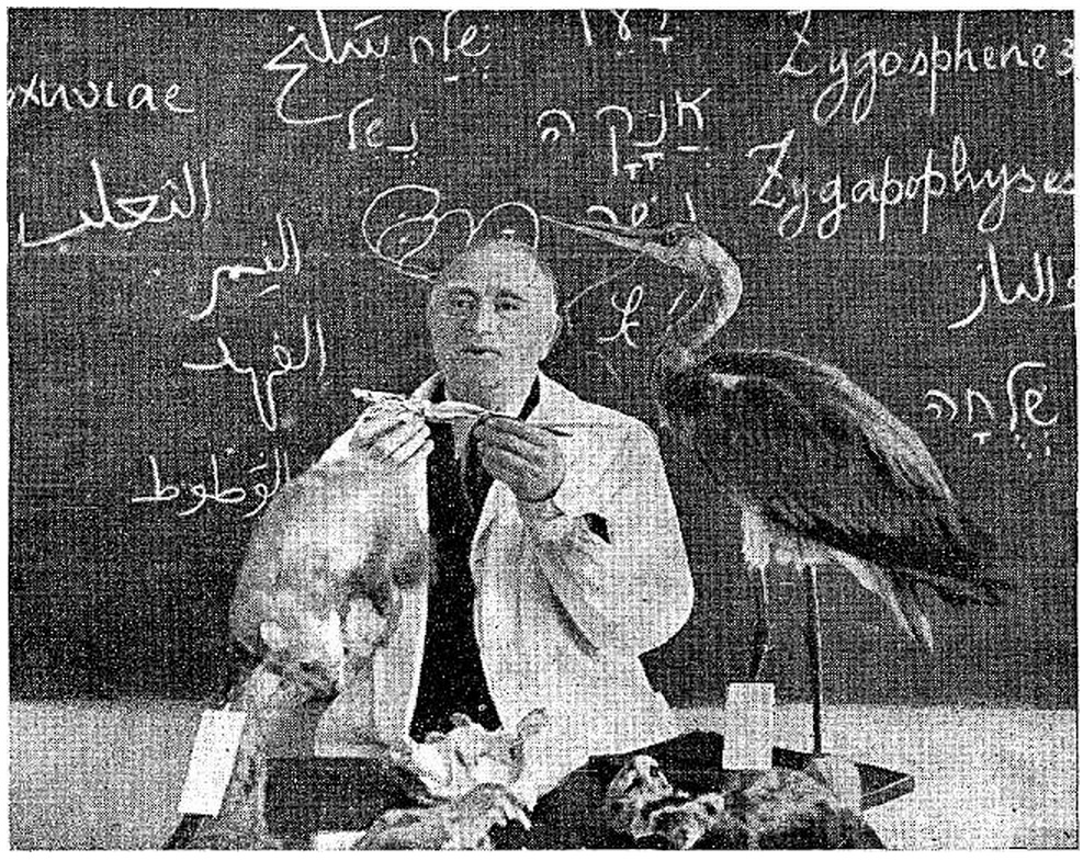 Israel Aharoni during his lecture at the Hebrew University of Jerusalem